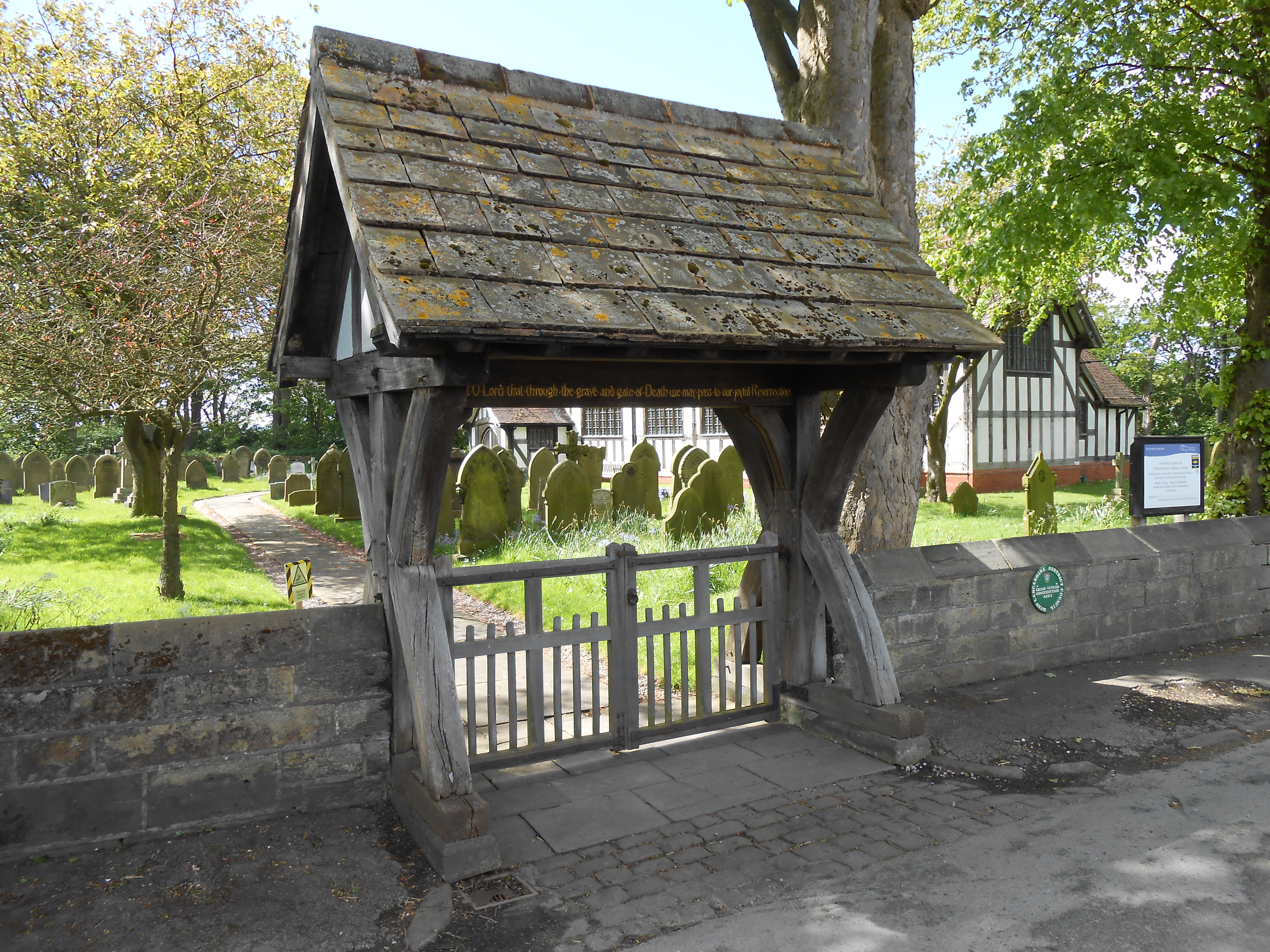 Lych gate at St Michael and All Angels Church, Altcar, Lancashire, England.